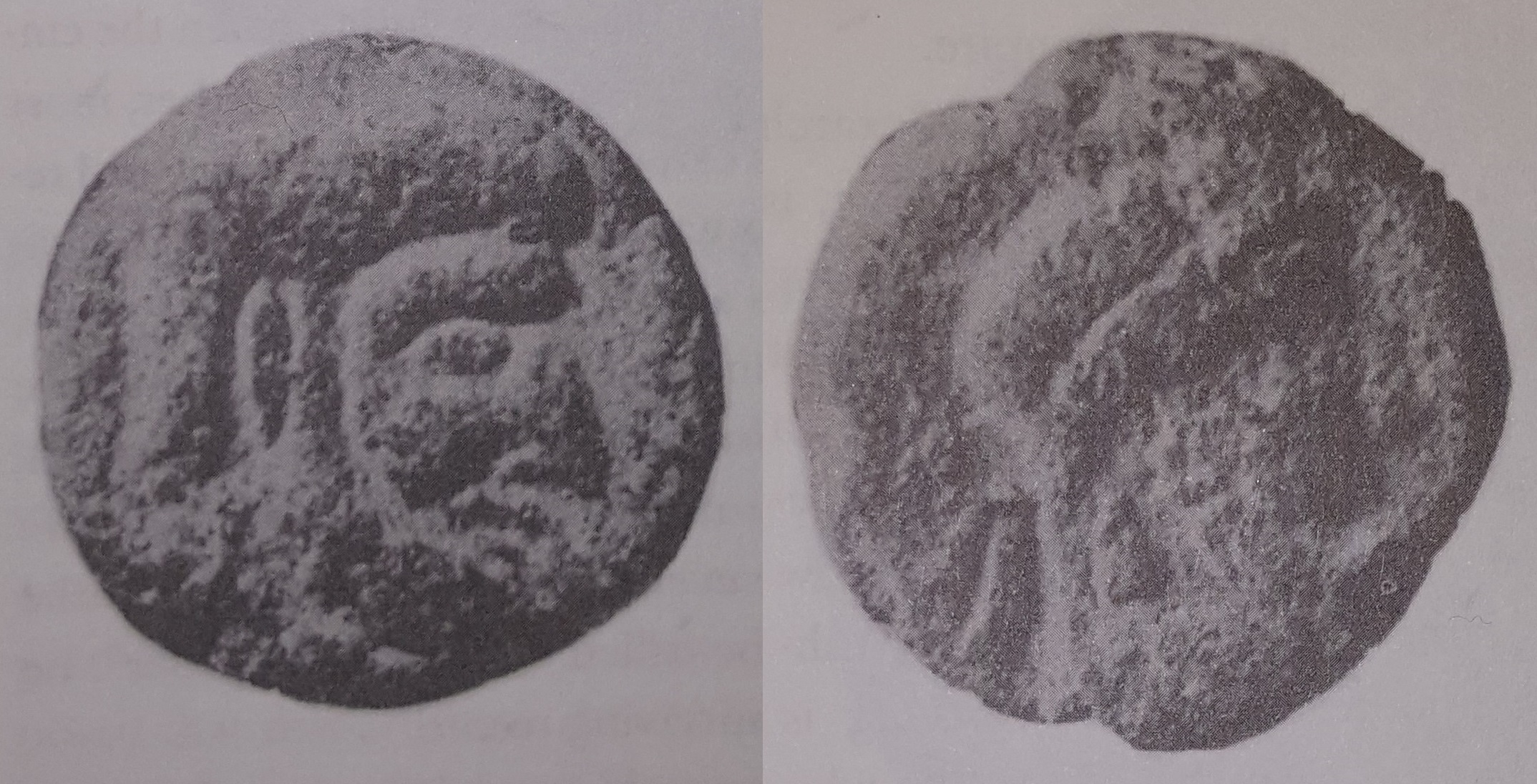 head, bearded, wearing a diadem: probably Odaenathus. To the right, maybe Heracles